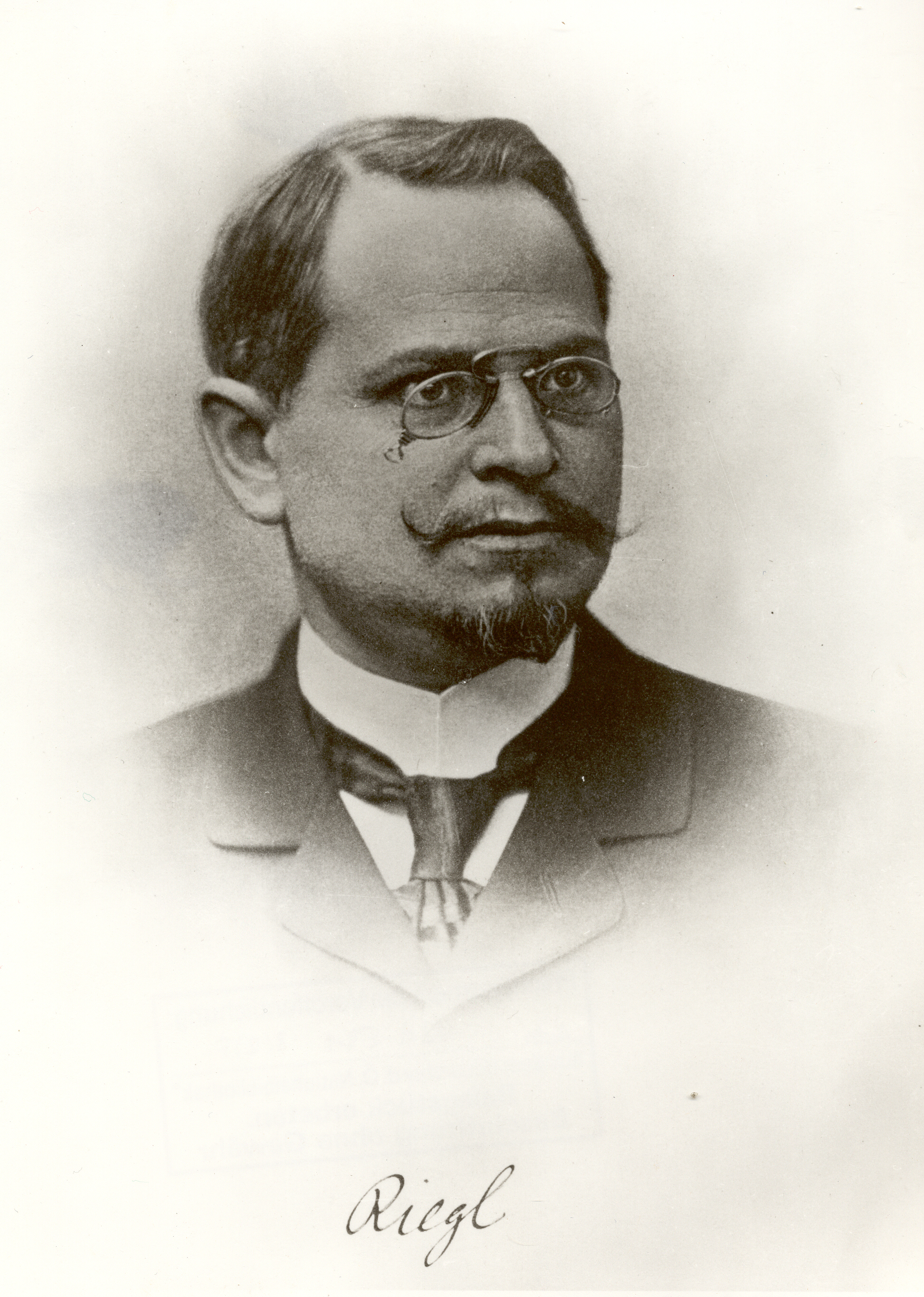 Author unknown, but photo taken ca. 1890. .